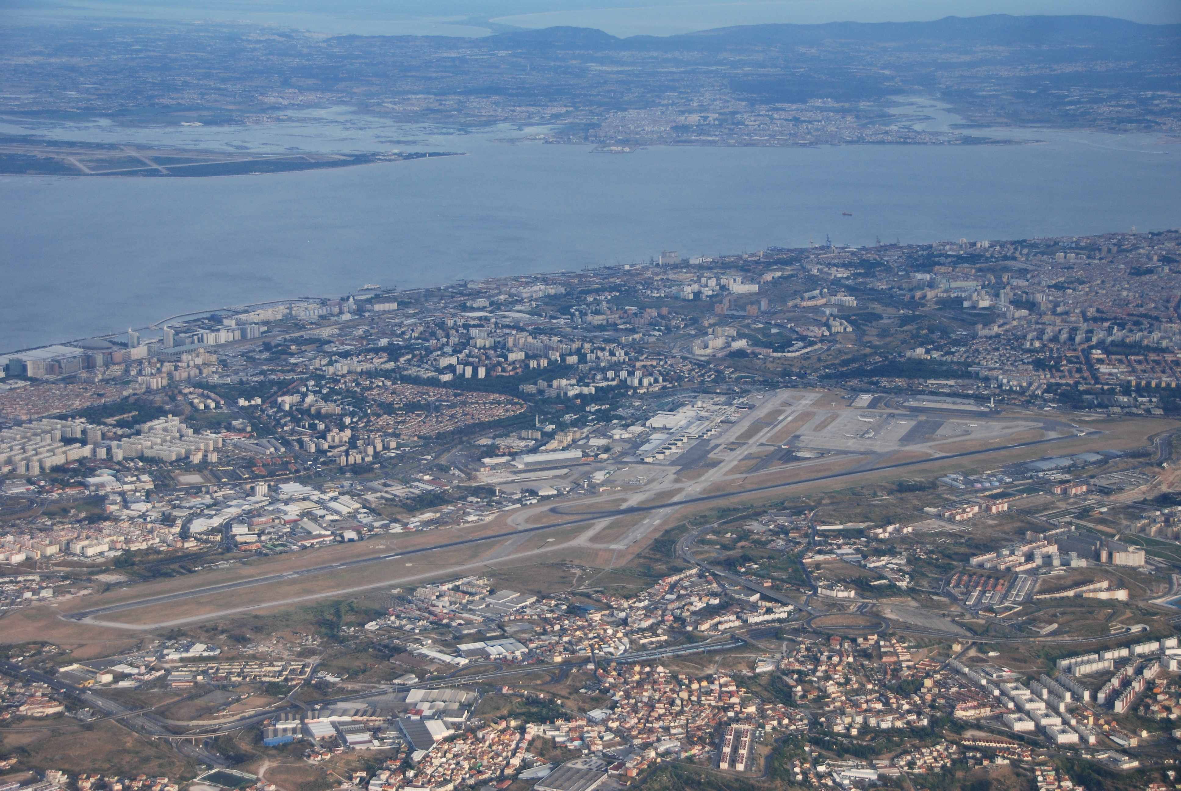 Take off of S4 467 LIS-FNC, July 11, 2011